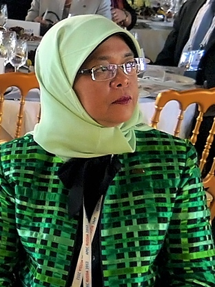 Halimah Yacob, Minister of State for Community Development, Youth and Sports, Singapore, at the opening reception of the Asia-Pacific Economic Cooperation (APEC) Women and the Economy Forum 2012 at Catherine Palace, Pushkin, Saint Petersburg, Russia.